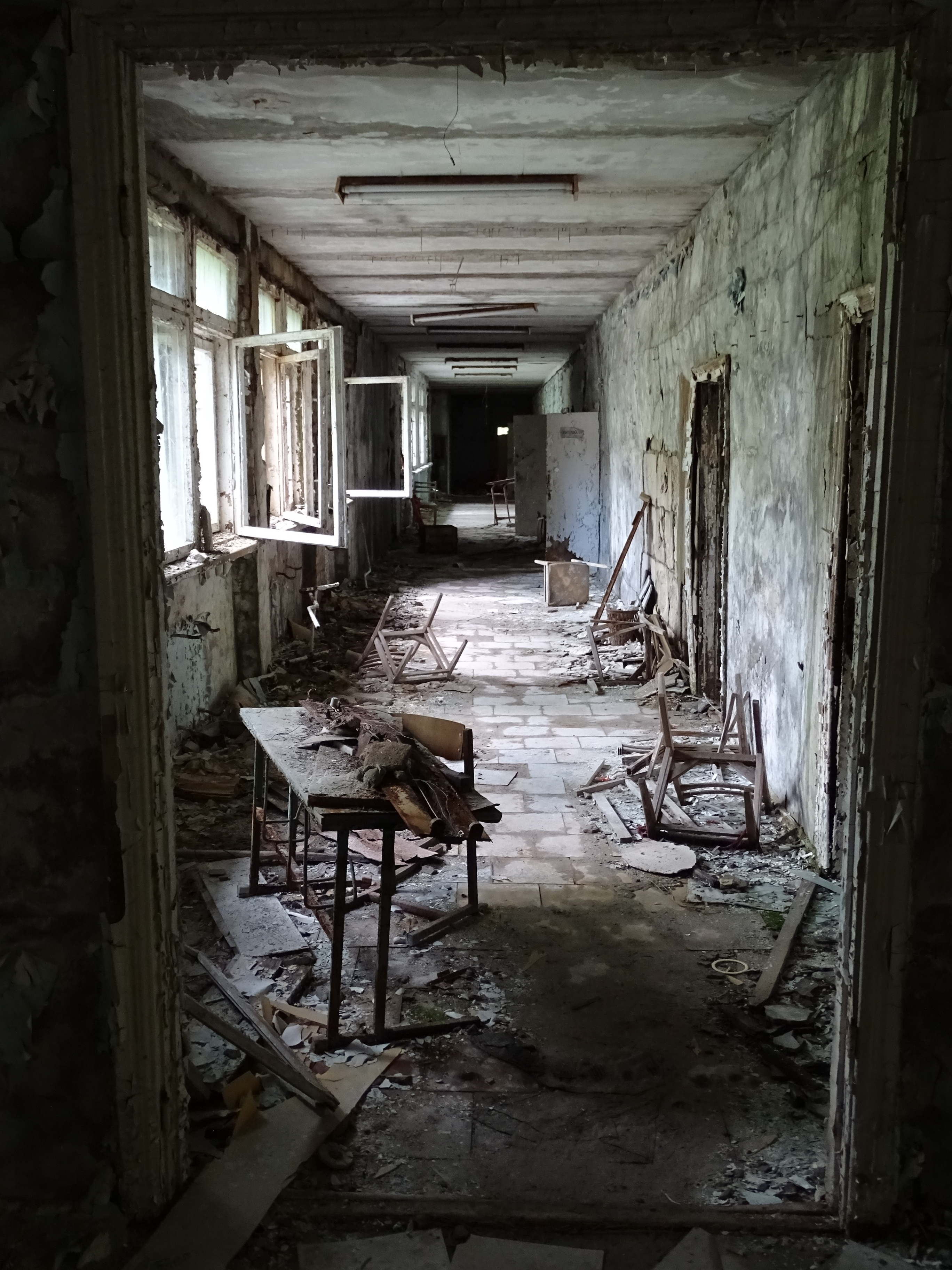 Abandoned Schoolhouse - Pripyat Ghost Town - Chernobyl Exclusion Zone - Northern Ukraine - 12